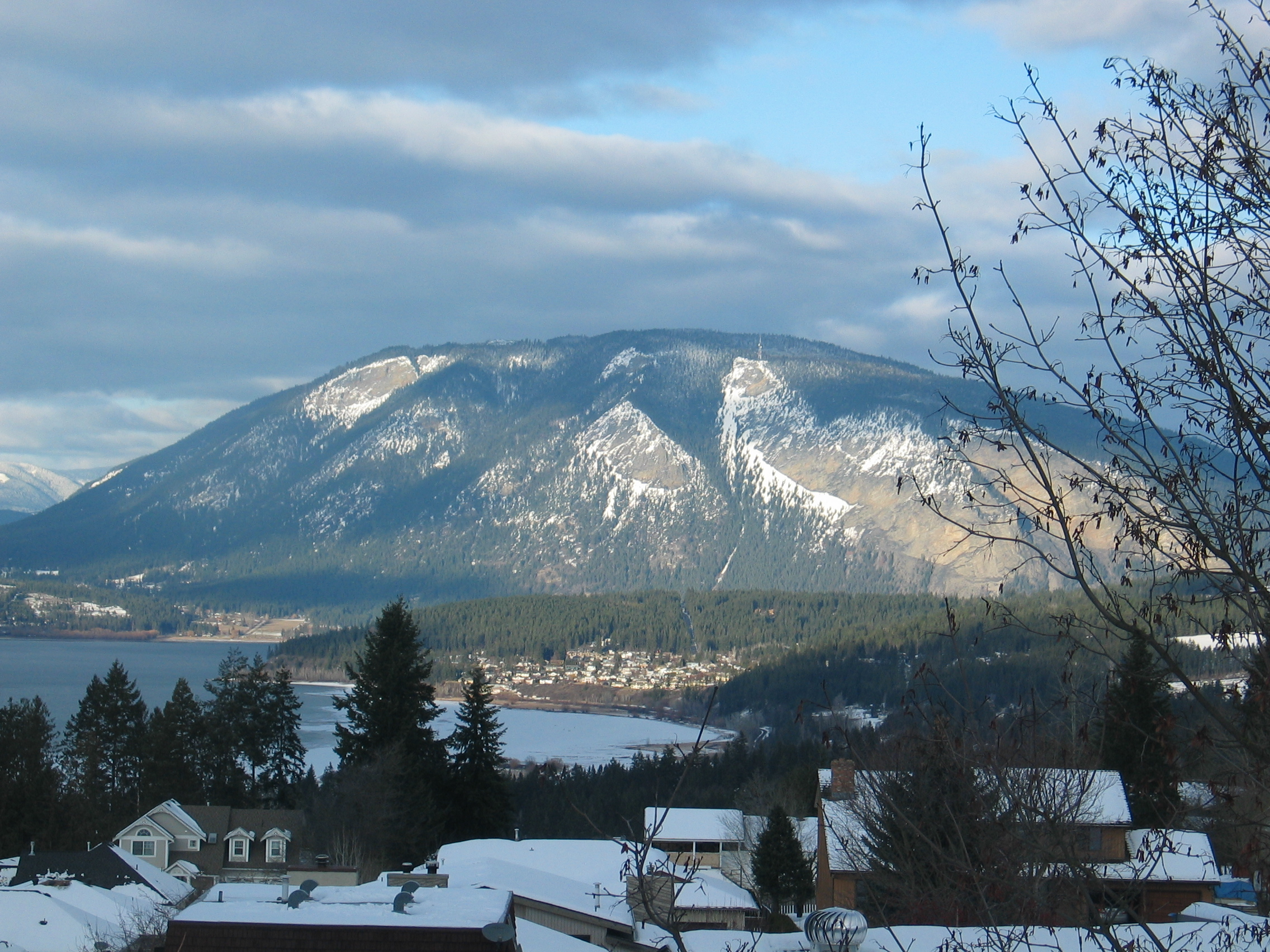 Bastion Mountain, as seen from Salmon Arm, BC